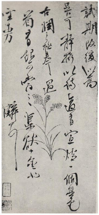 Letter from Zou Zhilin to an unknown recipient, on Ten Bamboo Studio decorated paper.